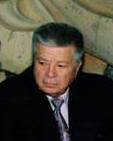 Svyatoslav Fyodorov, eye surgeon